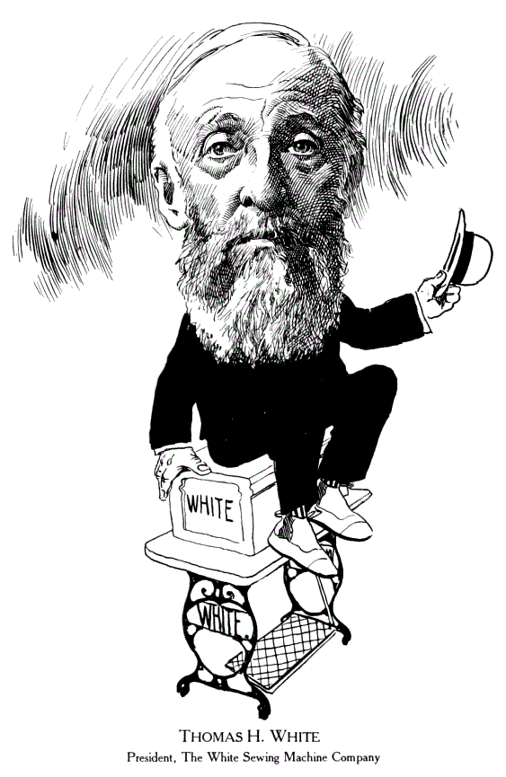 Clevelanders "As We See 'Em", published in August 1904, included numerous caricatures of prominent local residents.